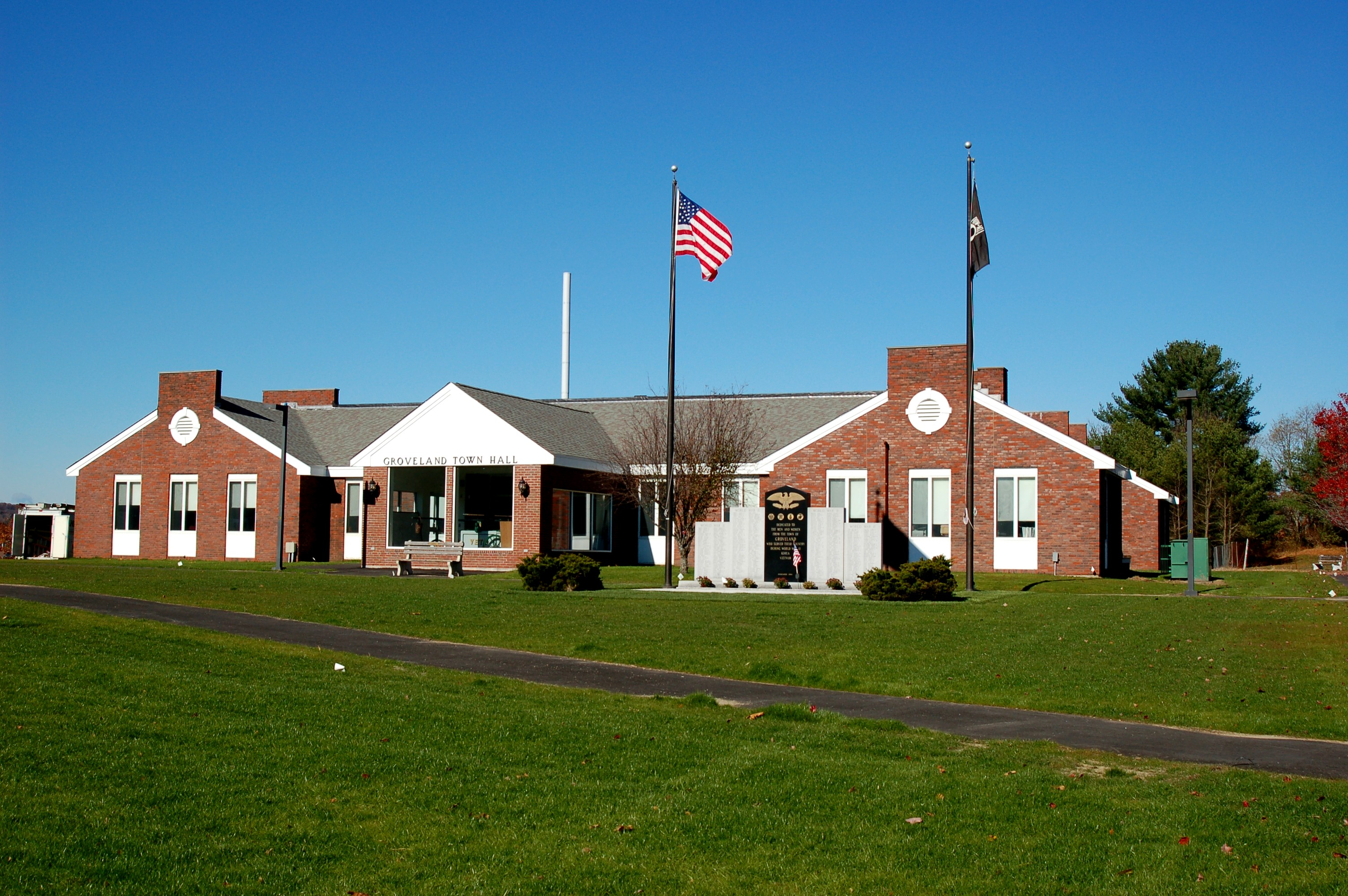 Photograph taken by Author, Richard B. Johnson.